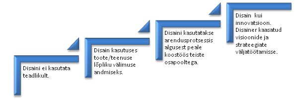 Disainitrepp